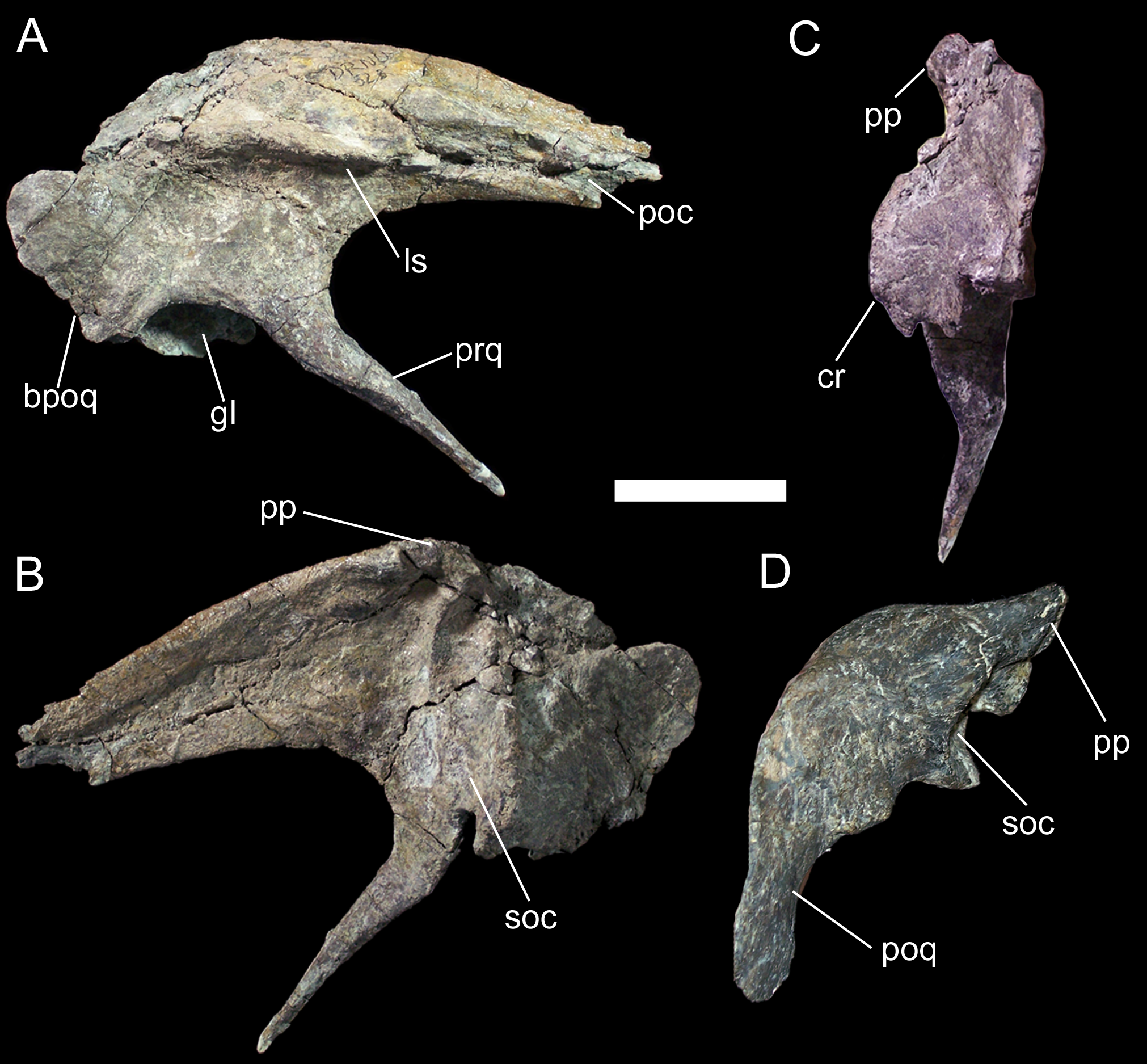 Right squamosal of UMNH VP 20205 shown in (A) lateral, (B) medial, and (C) caudal views. Left squamosal of Mantellisaurus atherfieldensis (NHMUK R5764, holotype) in (D) caudal view. Abbreviations: bpoq, base of postquadrate process; cr, caudal ridge of supraoccipital contact; gl, glenoid; ls, lateral shelf; poc, contact surface of squamosal process of postorbital; pp, parietal prong; prq, prequadrate process; soc, contact surface of supraoccipital. Scale bar equals 5 cm.